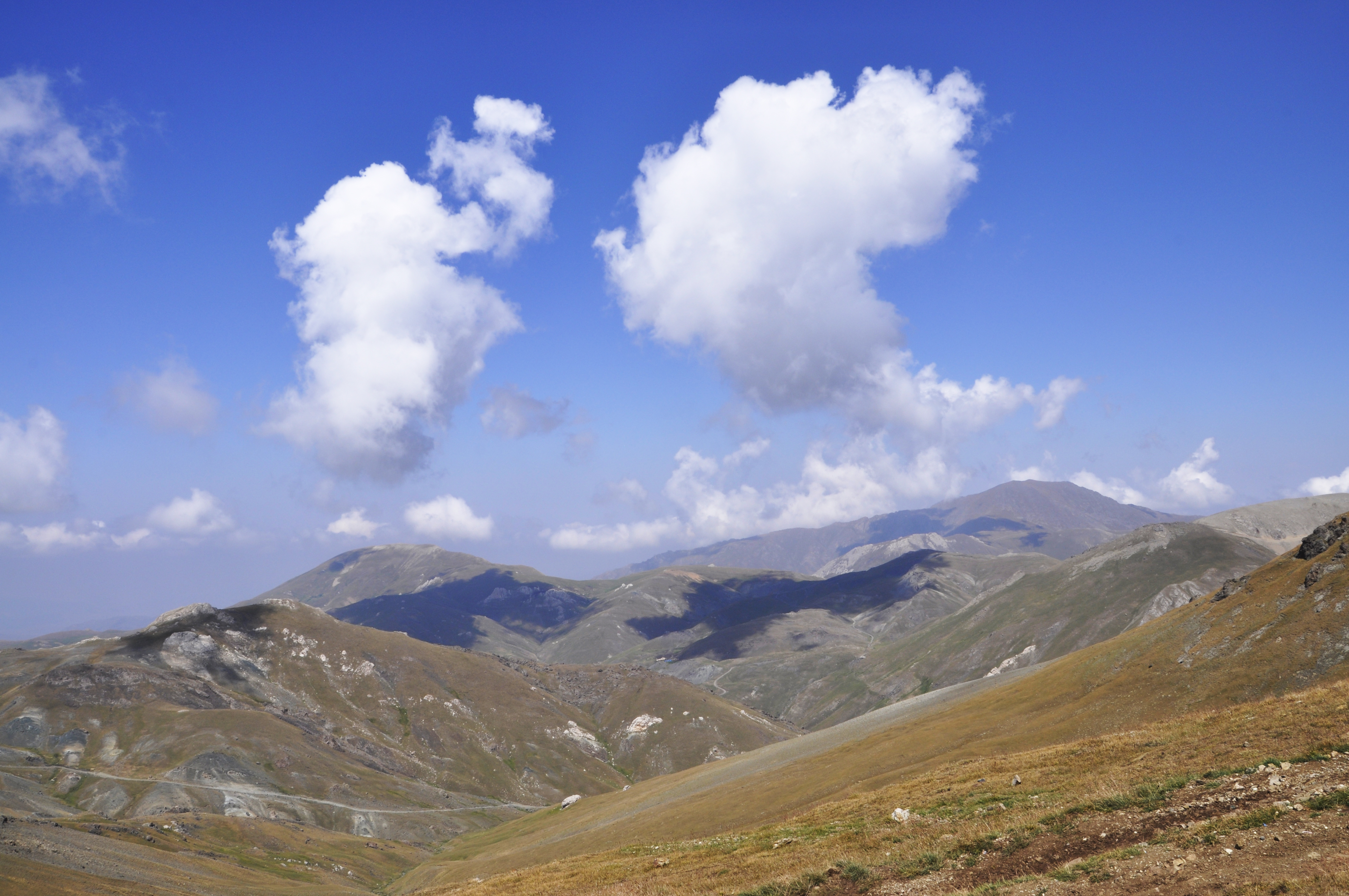 Hinal dag.